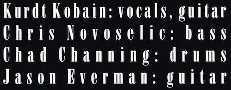 The names on the back cover of the 1989 Nirvana album "Bleach".